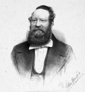 Poster for "Mr. Ransford's Great Bishop and Dibdin Concert", from the mid nineteenth century, depicting Edwin Ransford (1805 – 1876).